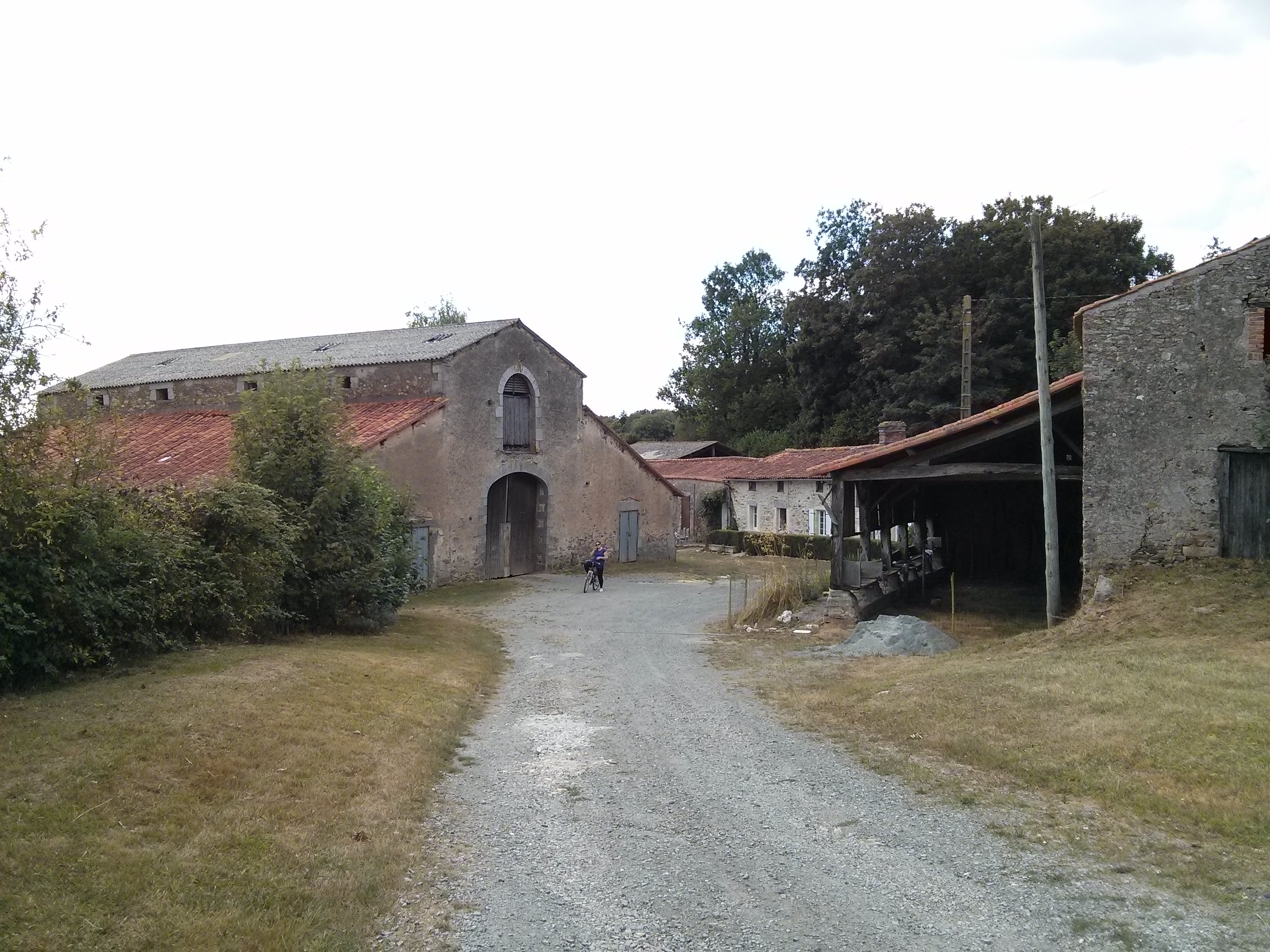 La Chapelle-aux-Lys scene